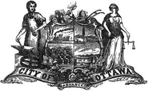 Historical (pre-1950s) coat of arms of the City of Ottawa